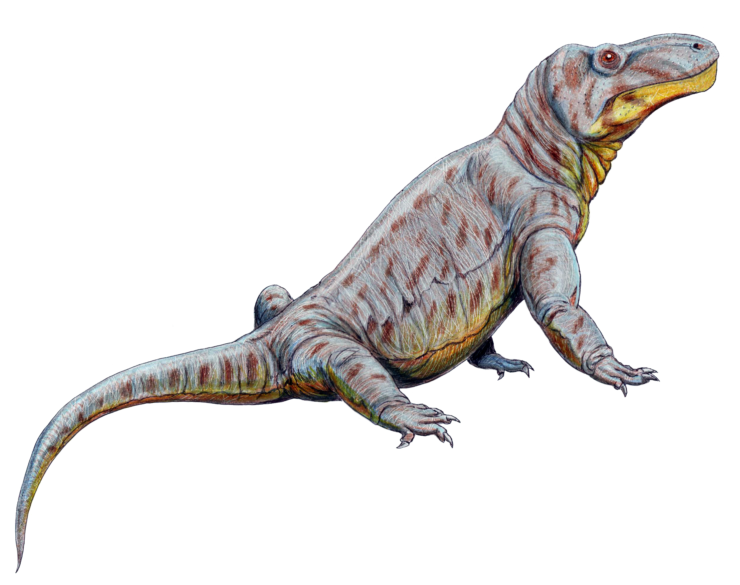 Titanosuchus ferox - titanosuchian from Middle Permian of South Africa